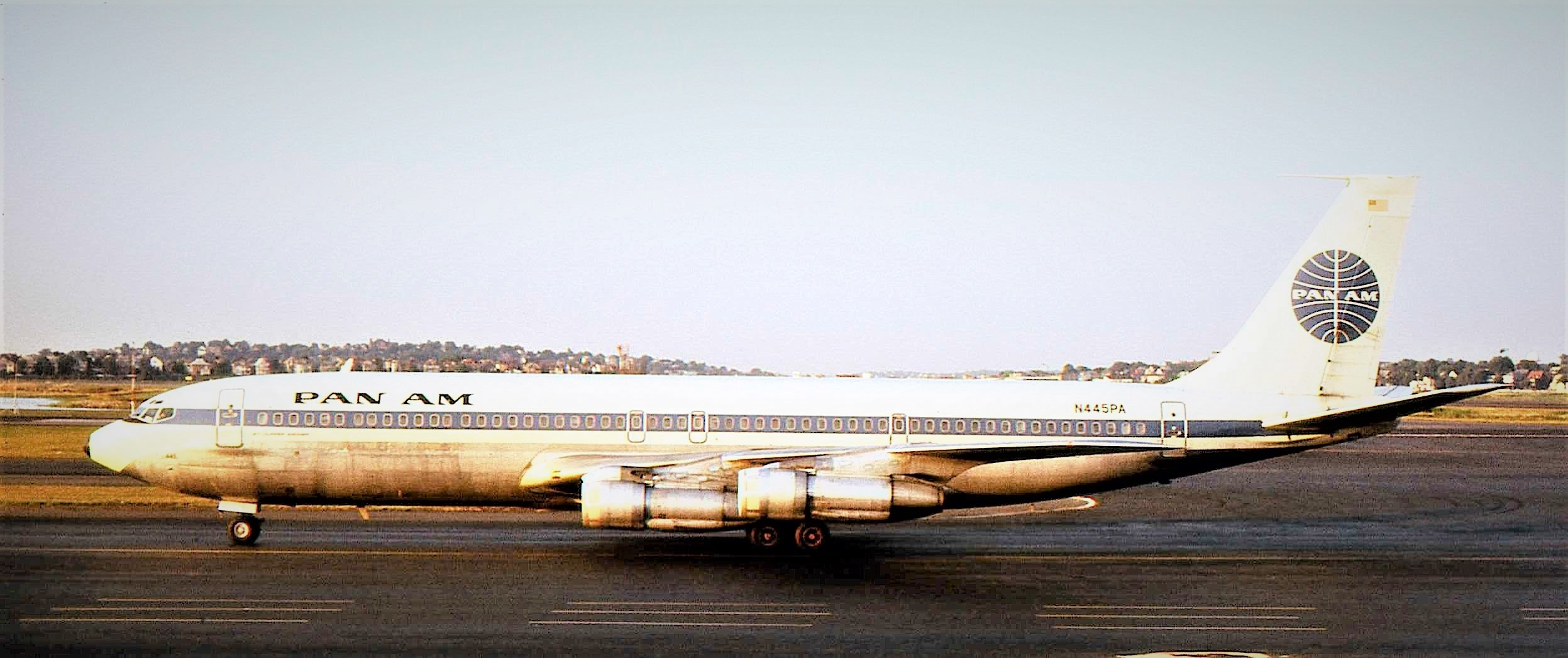 Pan American World Airways Boeing 707 N445PA delivered on December, 14, 1966, on the runway at New York Airport in 1973.